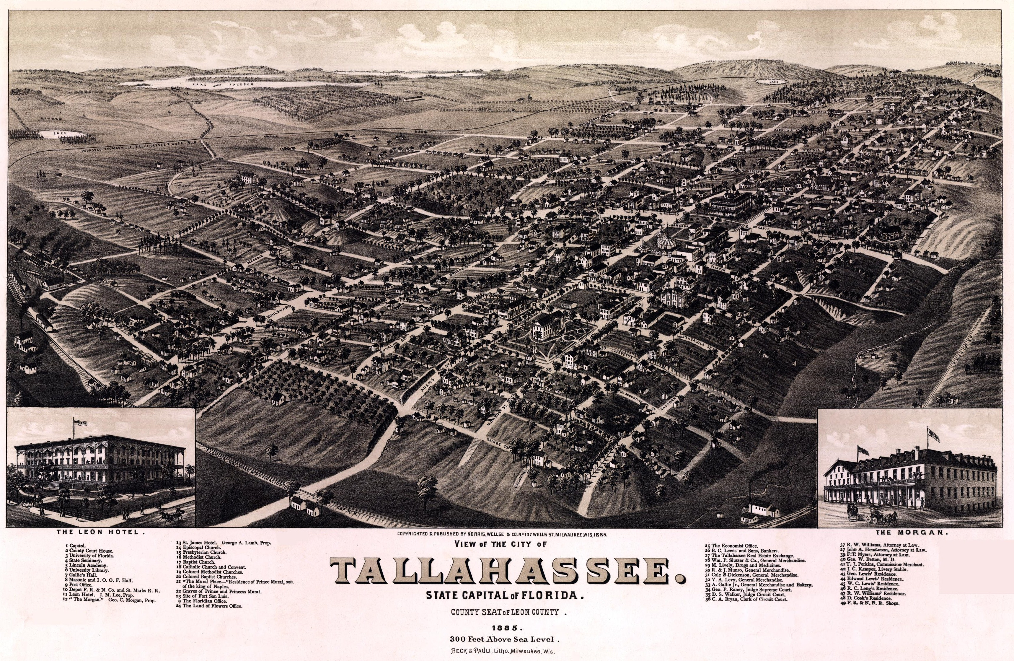 Nicely colored in age toned cream tones. This panoramic view identifies the street names and points of interest in Tallahassee more than a century ago.